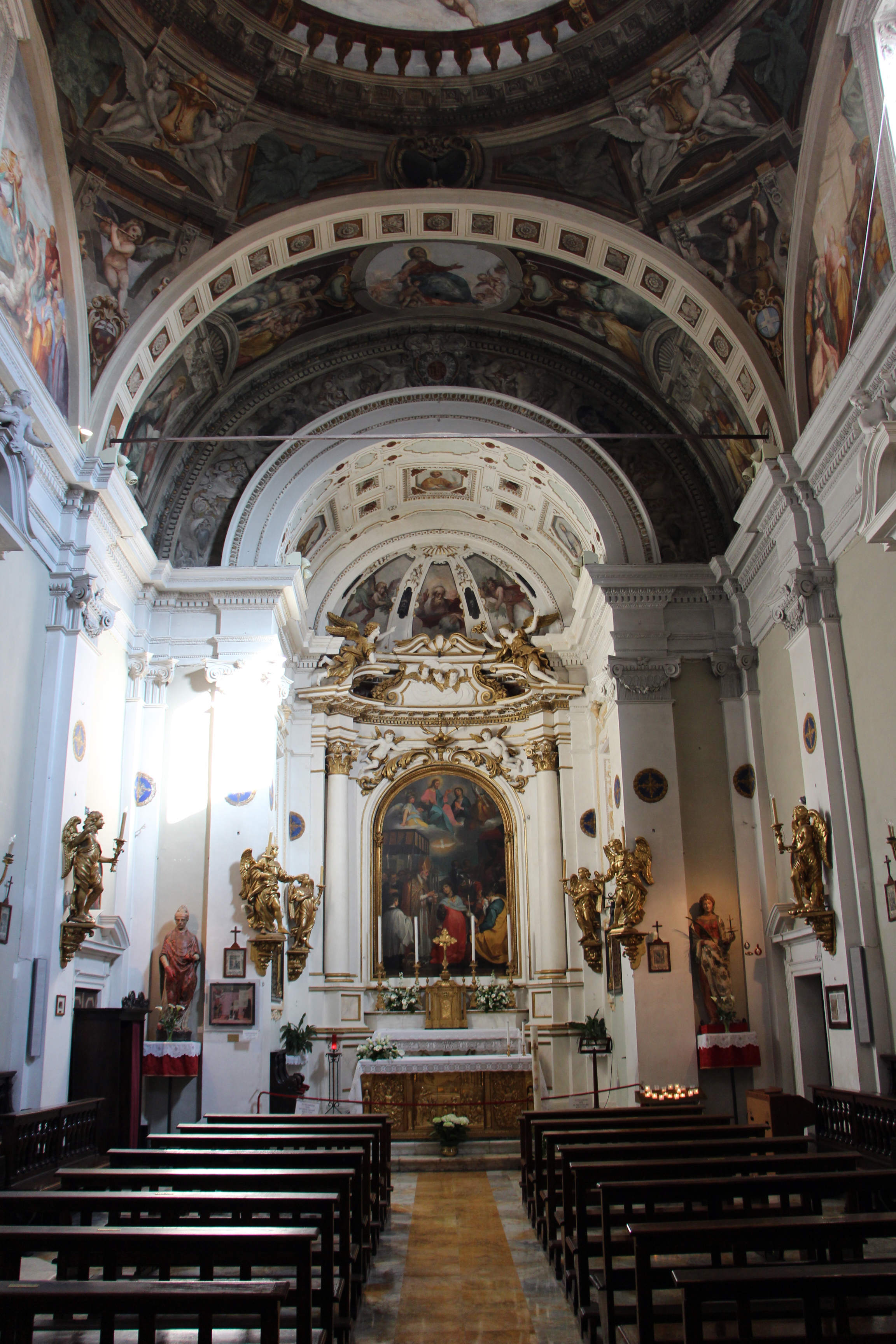 Santi Niccolò e Lucia (Siena)